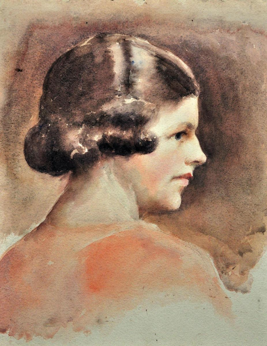 Portrait of Helen Hatton, his wife. VWilliam Henry Margetson was married to Helen Howard Hatton (the daughter of author Joseph Hatton and herself an artist) on 20 June 1889 at St Mark’s, St John’s Wood.